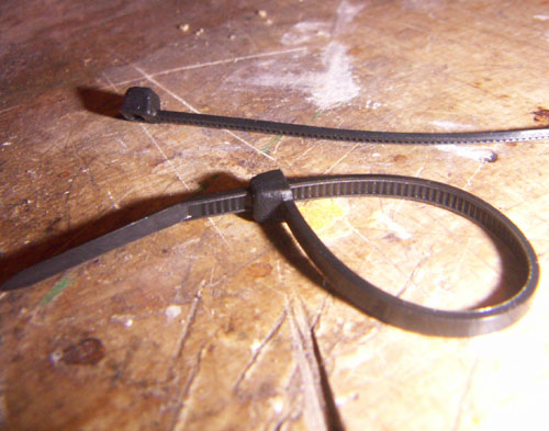 Two cable ties: one opened and one closed